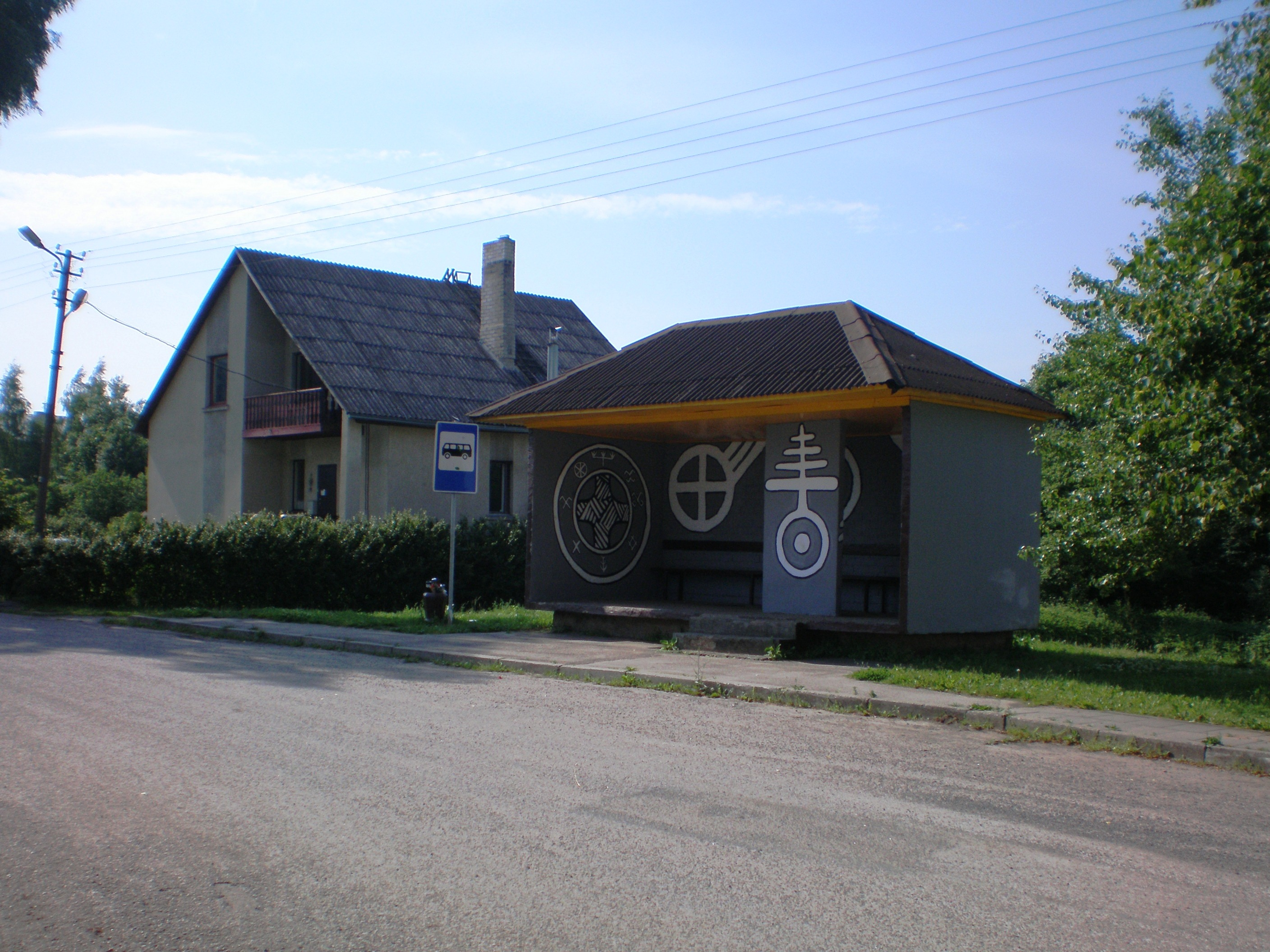 Bus stop with Baltic mythological symbolics in Punia, Lithuania